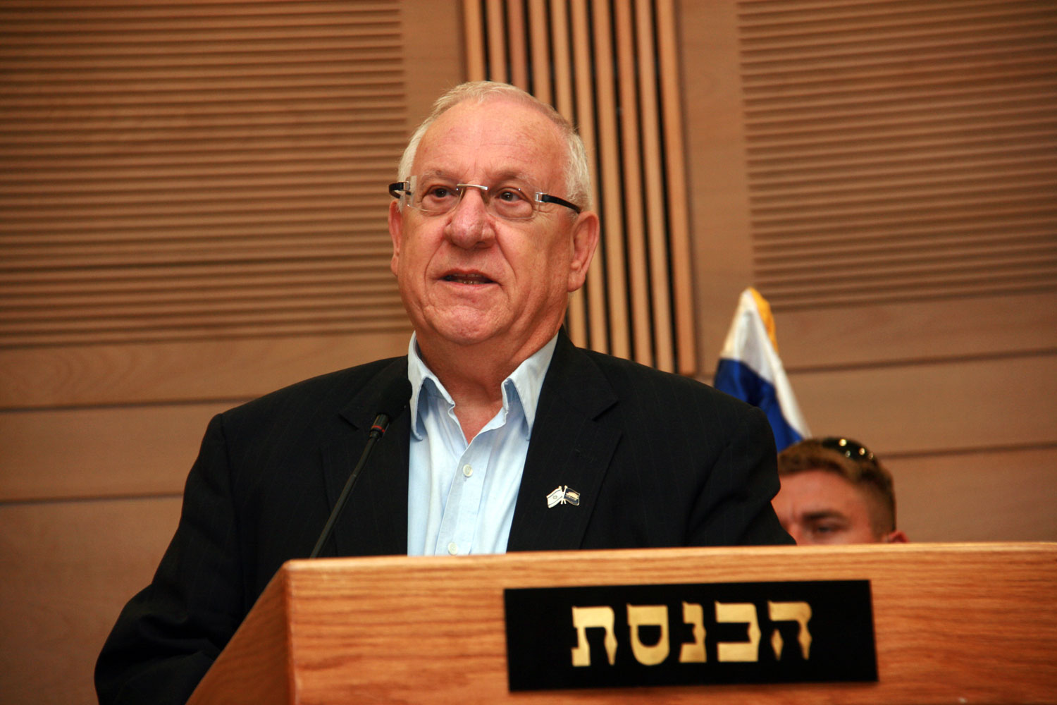 MK Reuven Rivlin